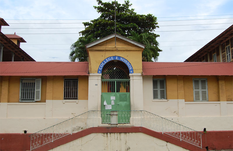 Entrance of collège Nonnon in Cayenne, French Guiana.